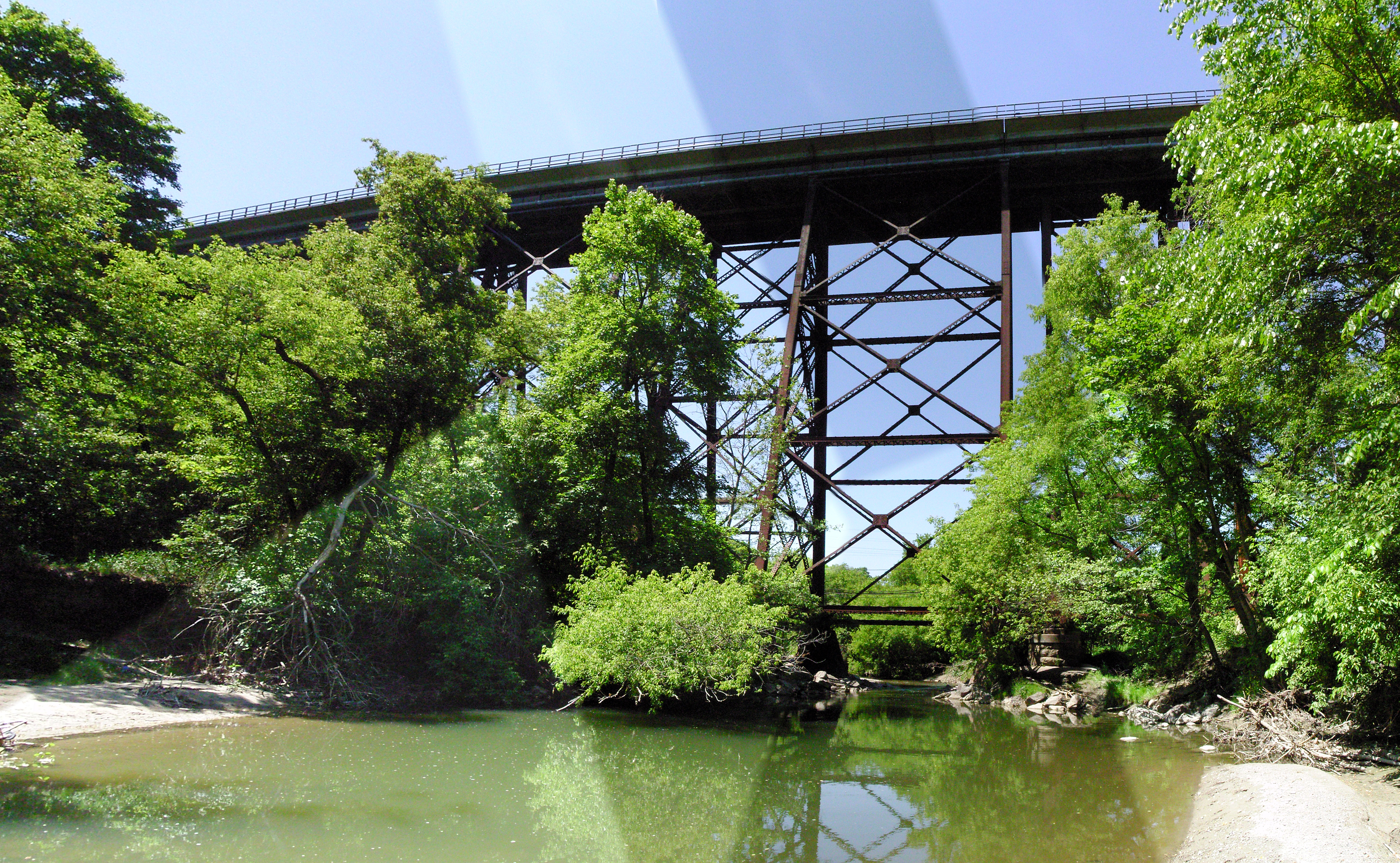 View of CPR Trestle bridge over Don River in Toronto, Canada.